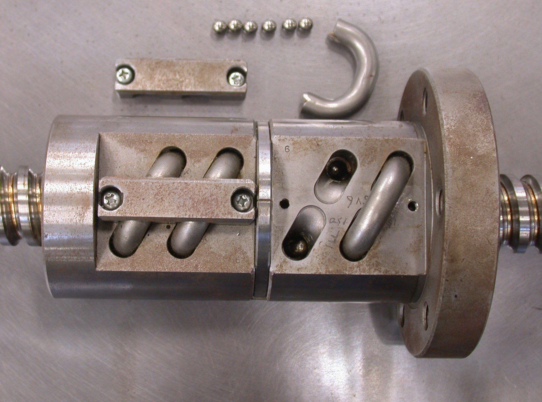 Image shows partially dissassembled ball screw nut. One of four recirculating tubes has been removed to show the ball cavity and balls within.